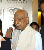 Naqsh Lyallpuri at the mahurat of the film Ek Baar Phhir Kaho.